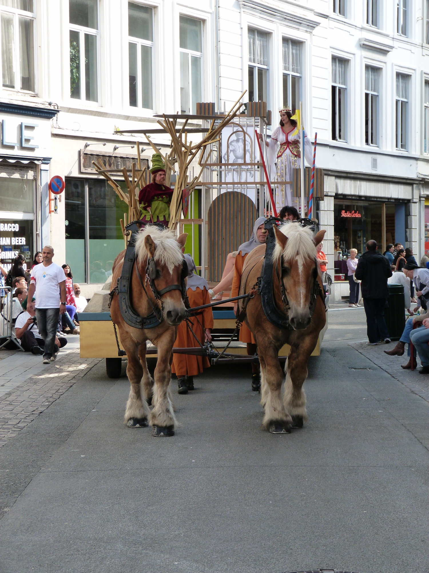 The Golden Tree (float)